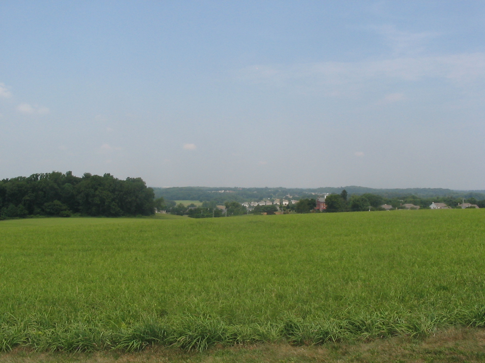 Image taken by me for Wikipedia.